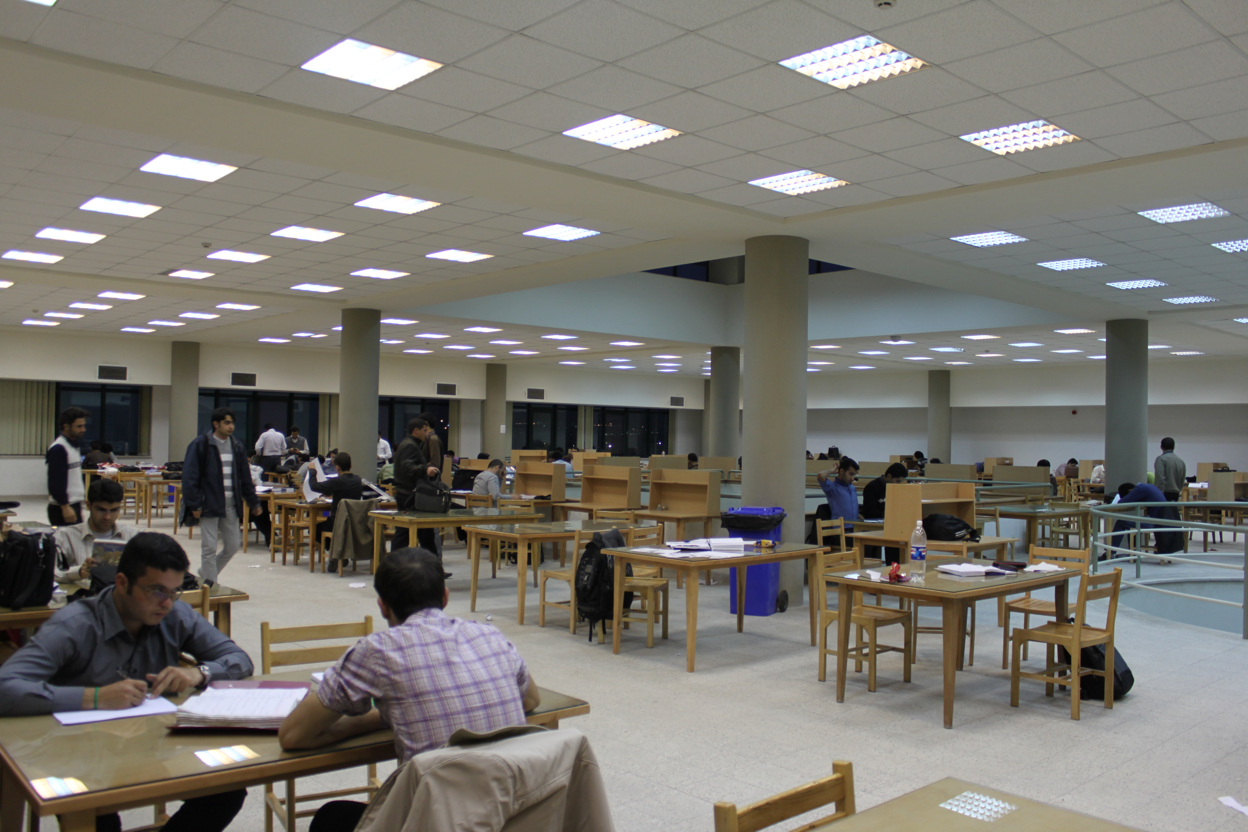 Zanjan University, Zanjan Province, Iran